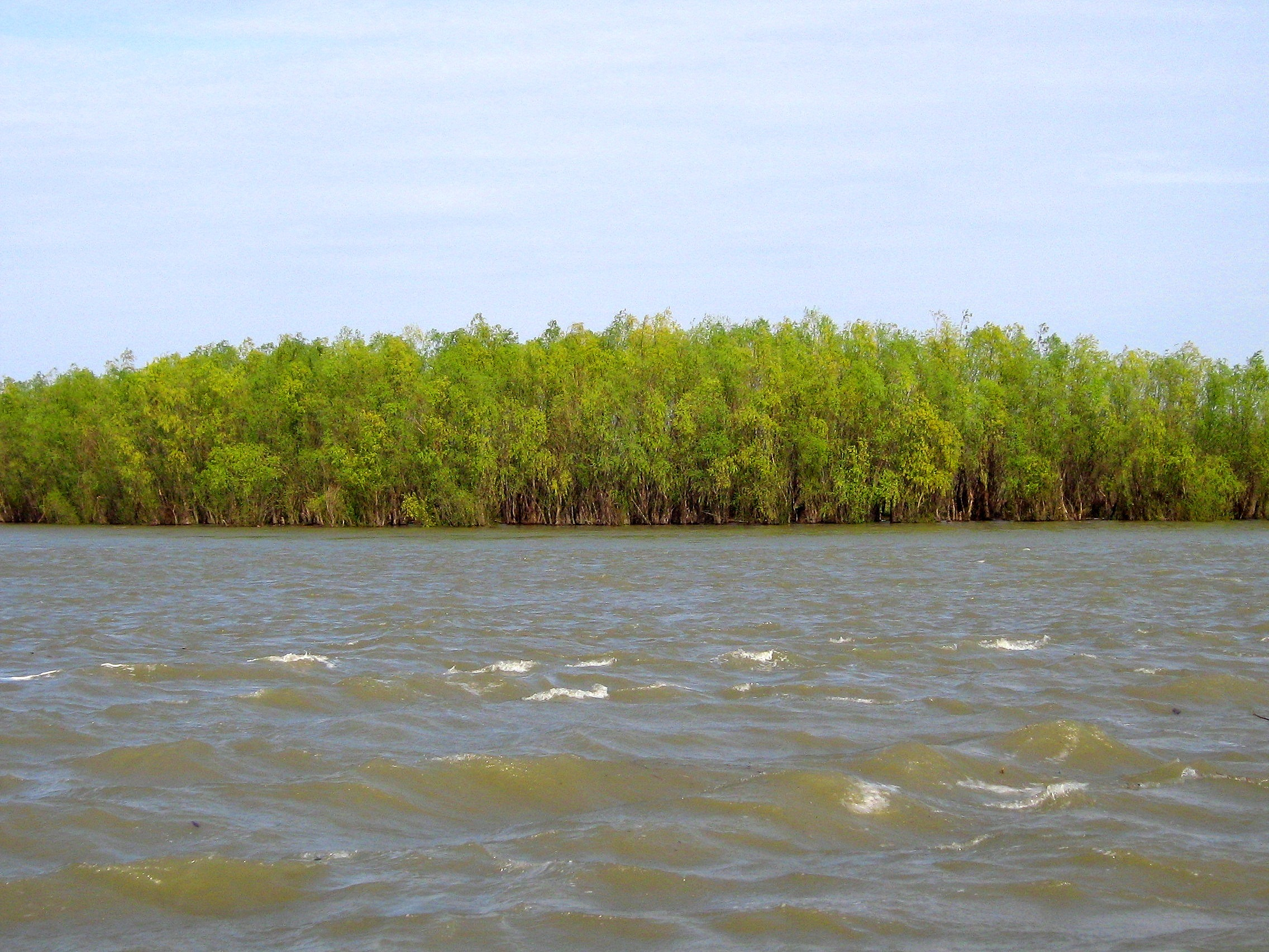 The Great Braila Island